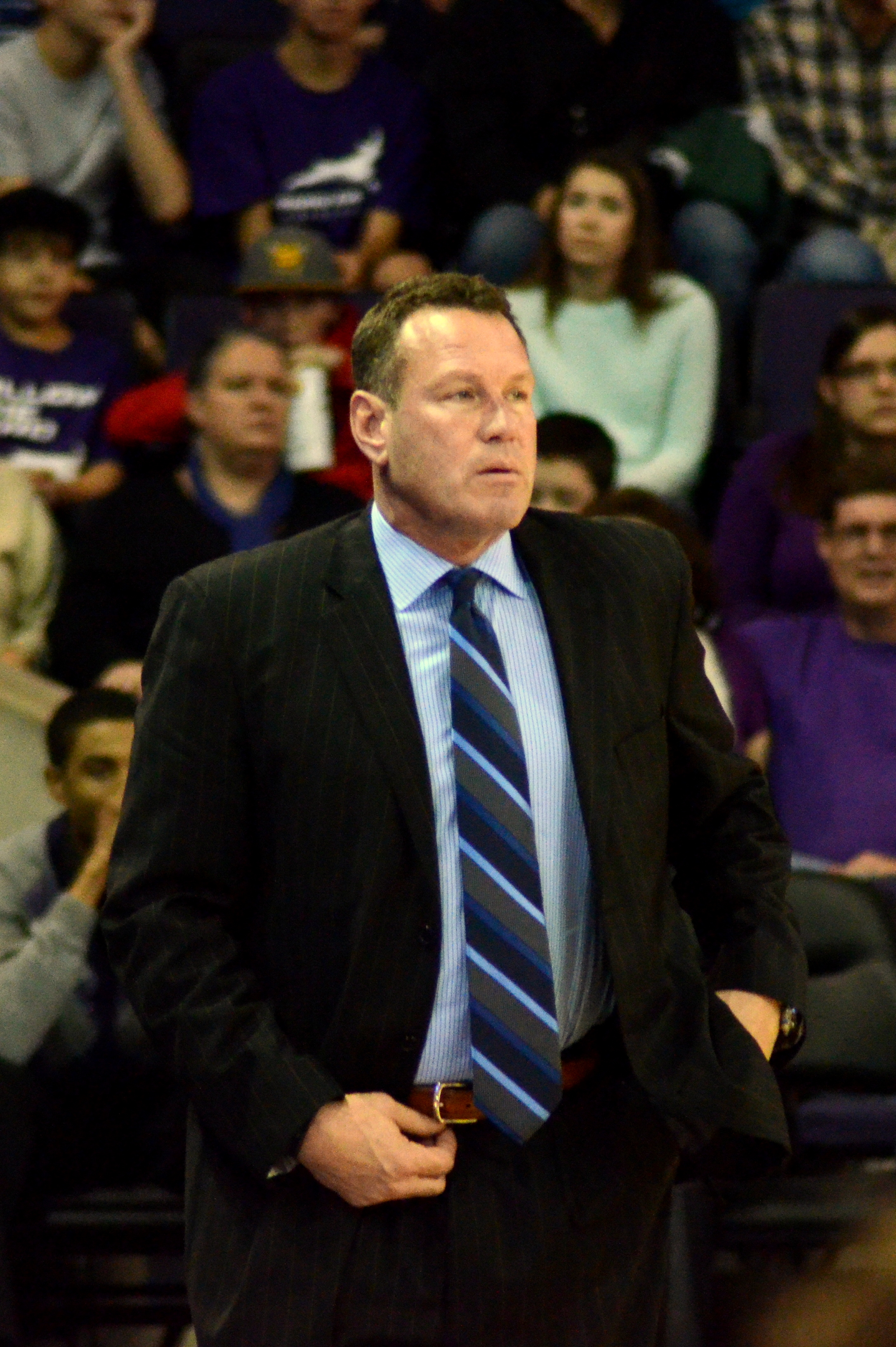 Dan Majerle on the sidelines at GCU Arena